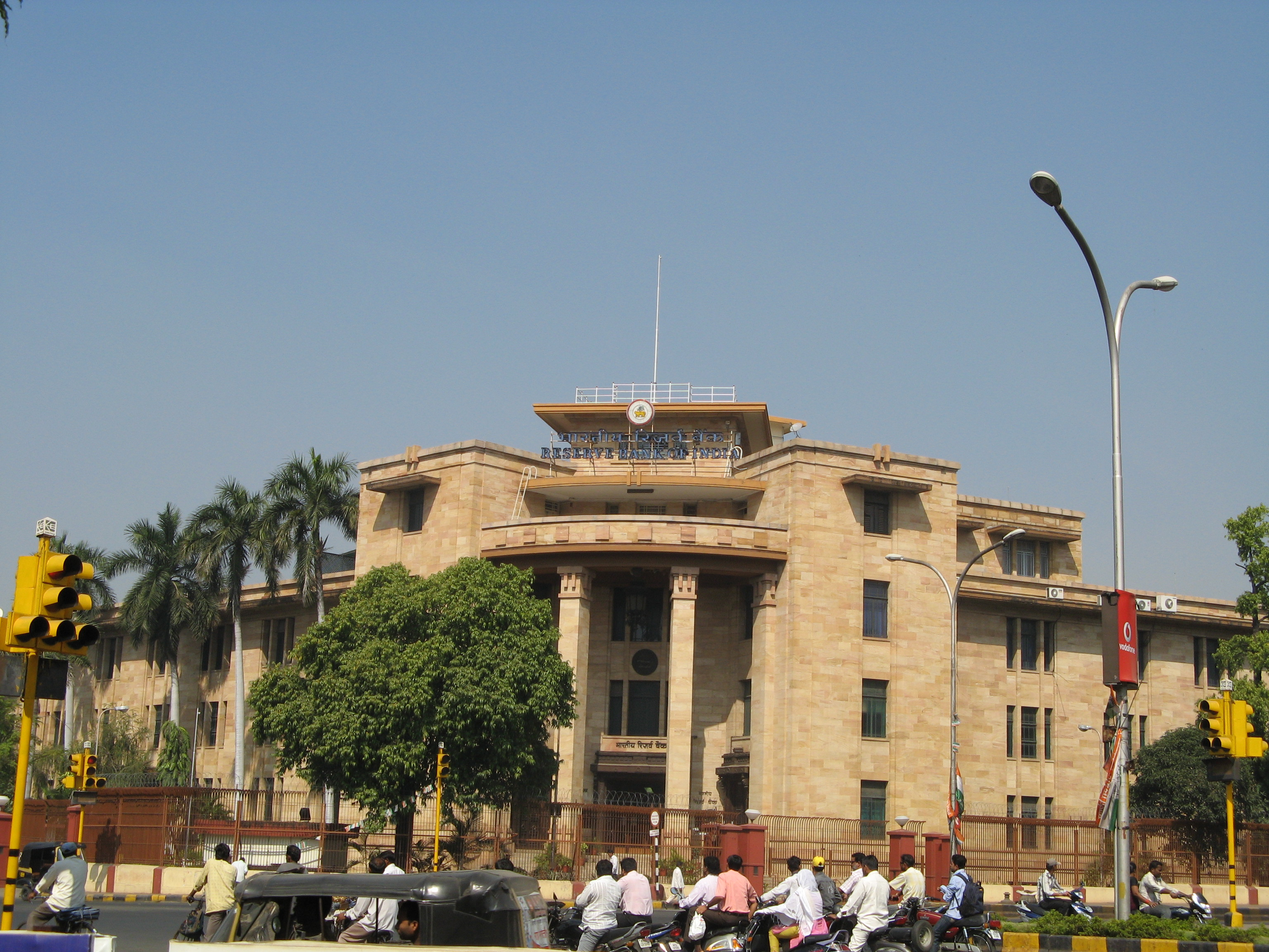 Nagpur branch of Reserve Bank of India. I took this photo from the gas station across the RBI square. Thankfully no policeman harassed me for taking this photo :-)